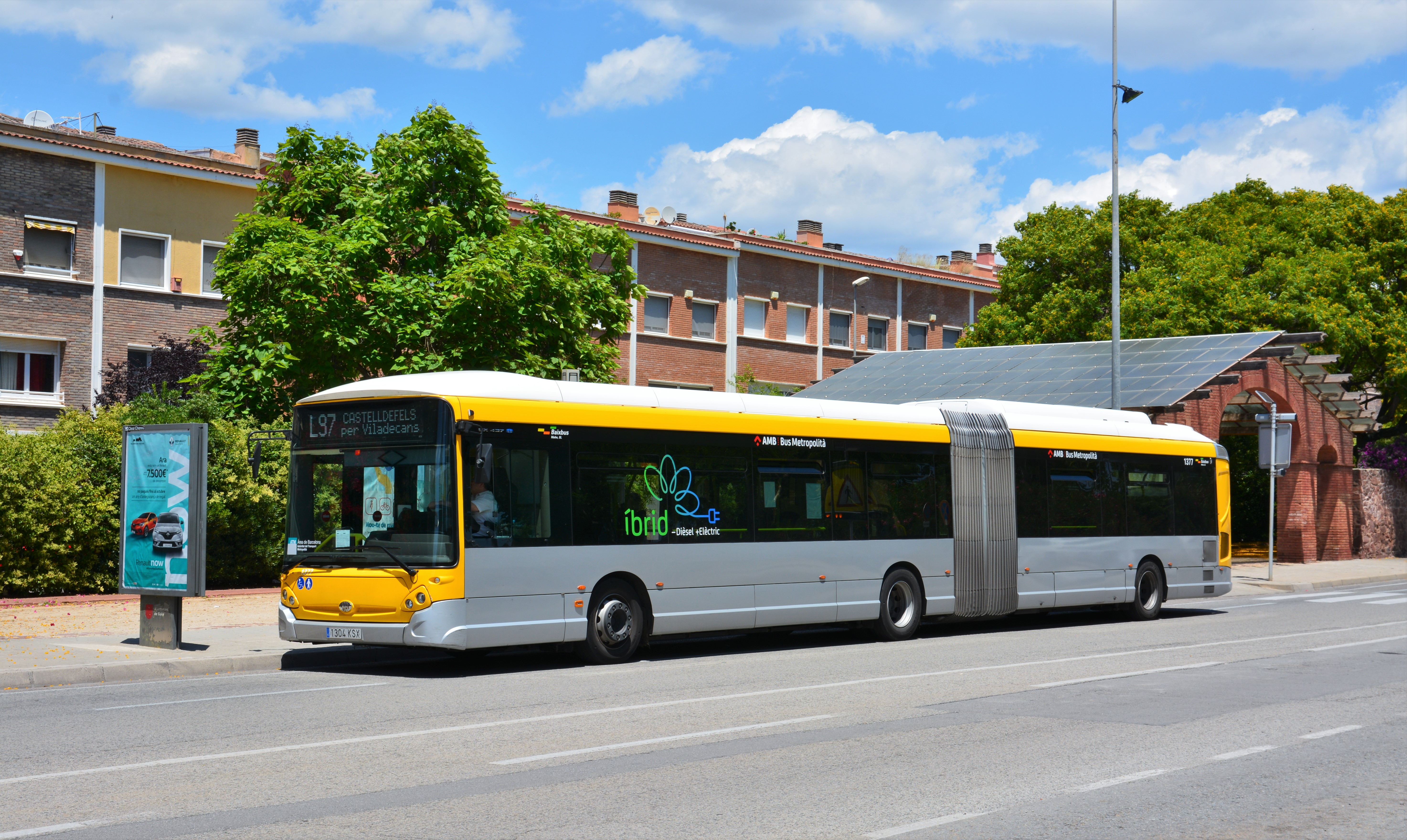 The Heuliez GX437 Hybrid articulated bus number 1377 of Mohn S.L. in Gavá, working a service on the L97 line from Barcelona to Castelldefels.